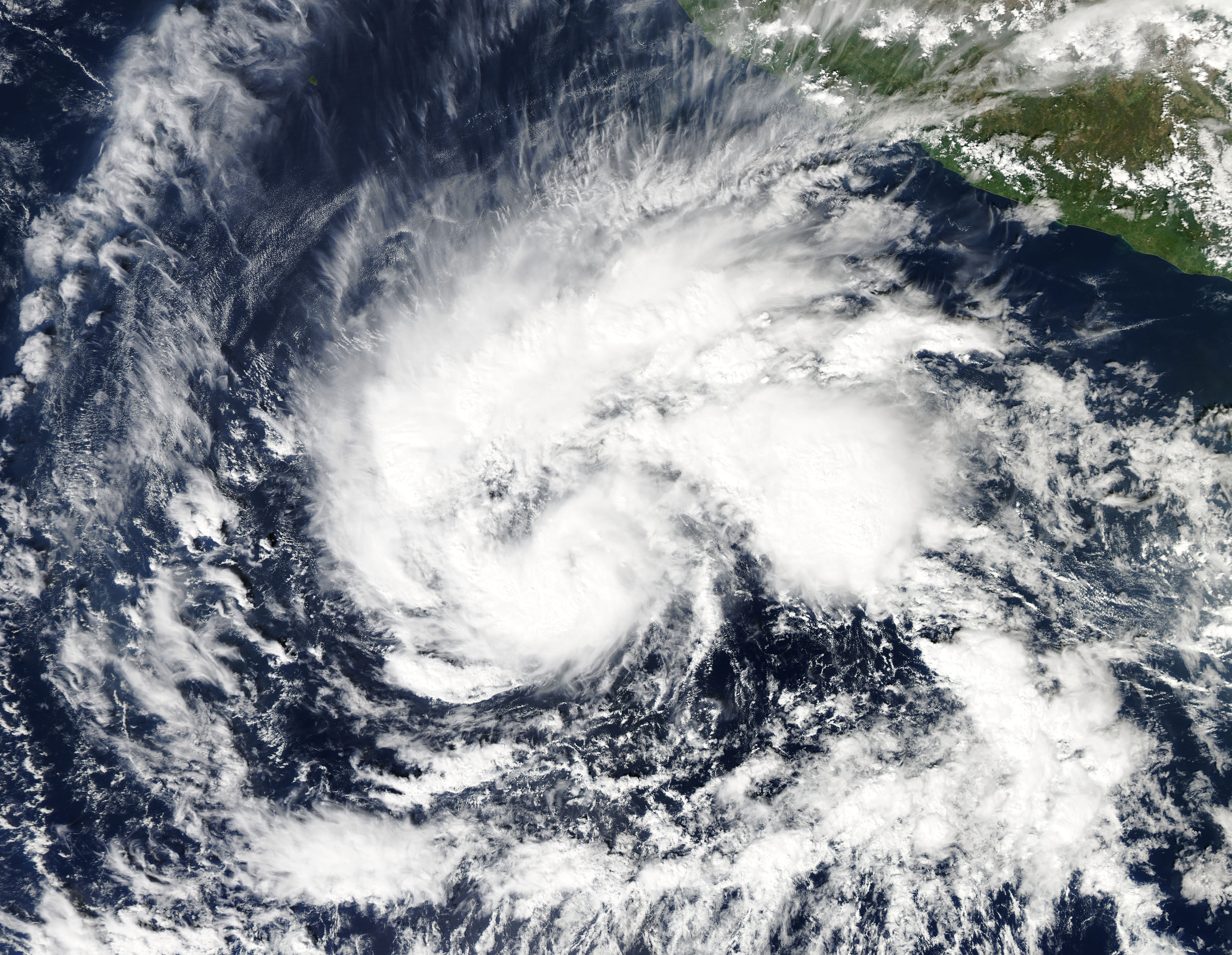 Tropical Storm Sandra (22E) off Mexico